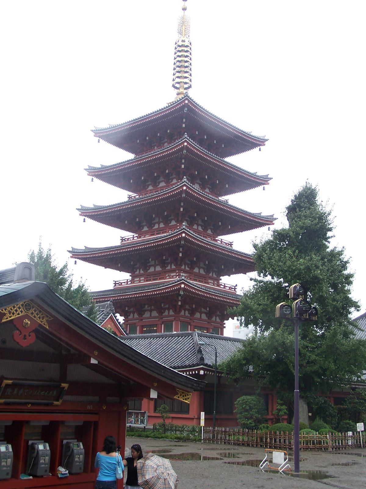 Pagoda at Senso-ji.